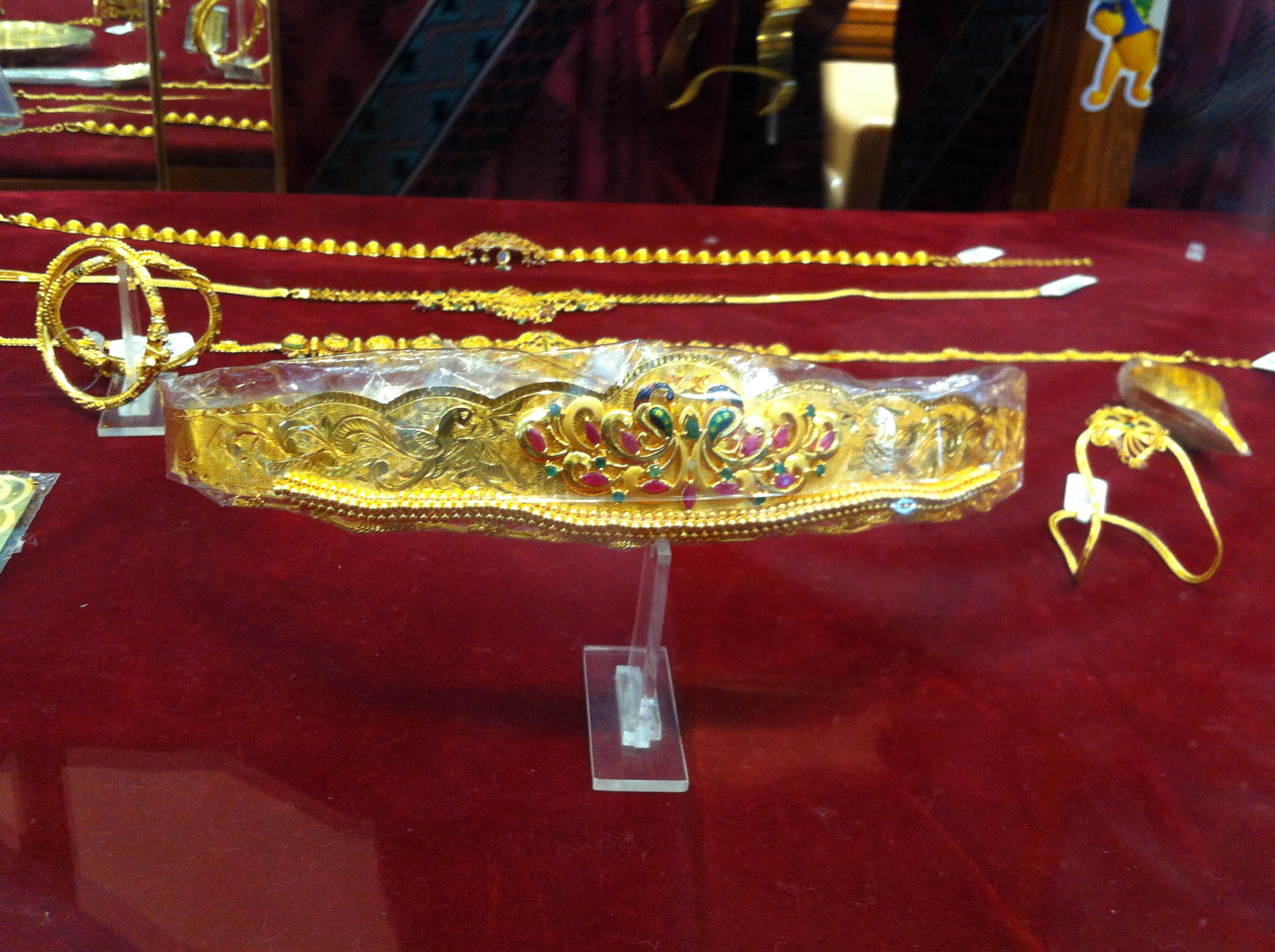 Jewellery of Tamil Nadu